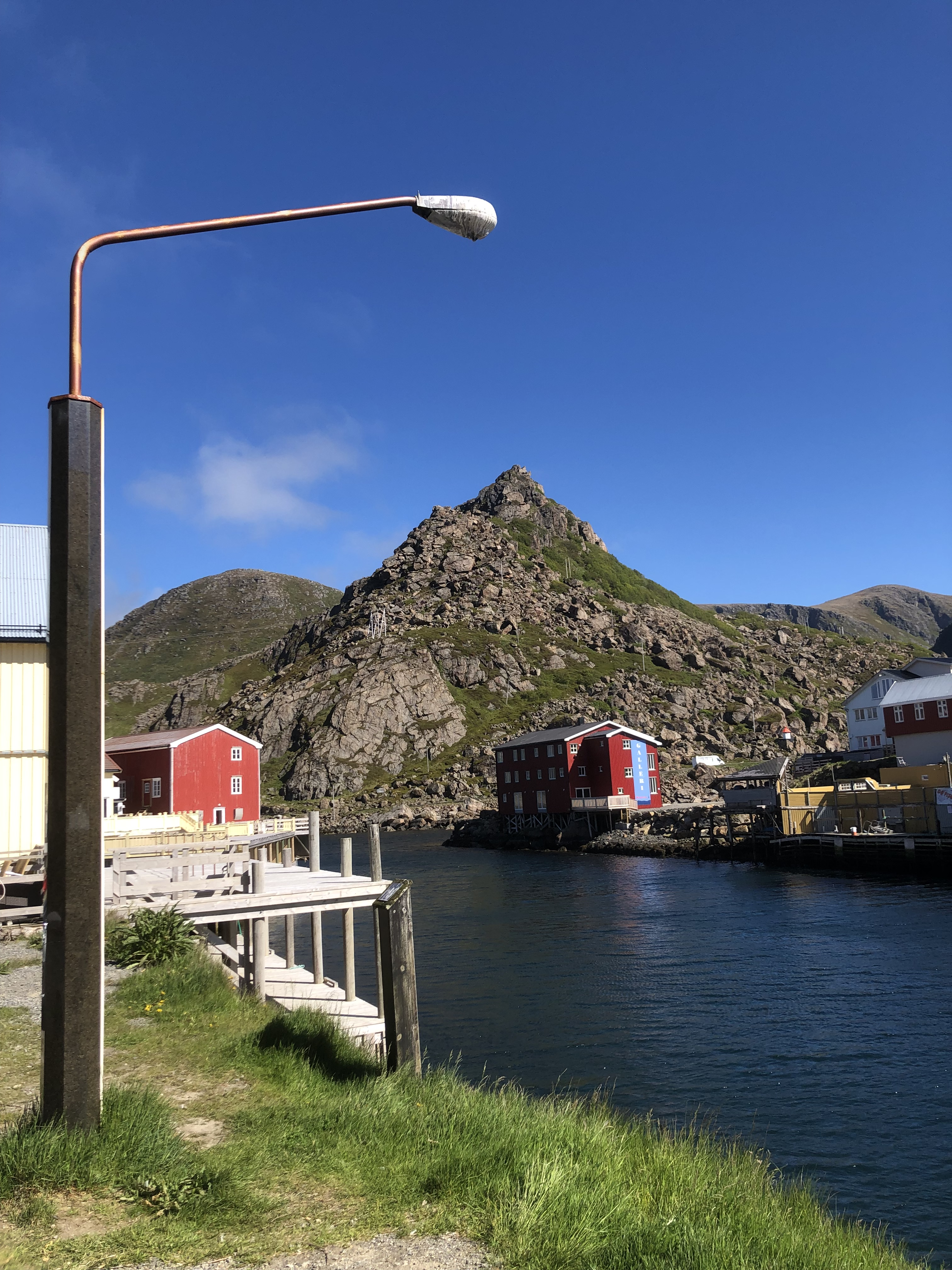 Landscape from Nyksund, Nordland, Norway